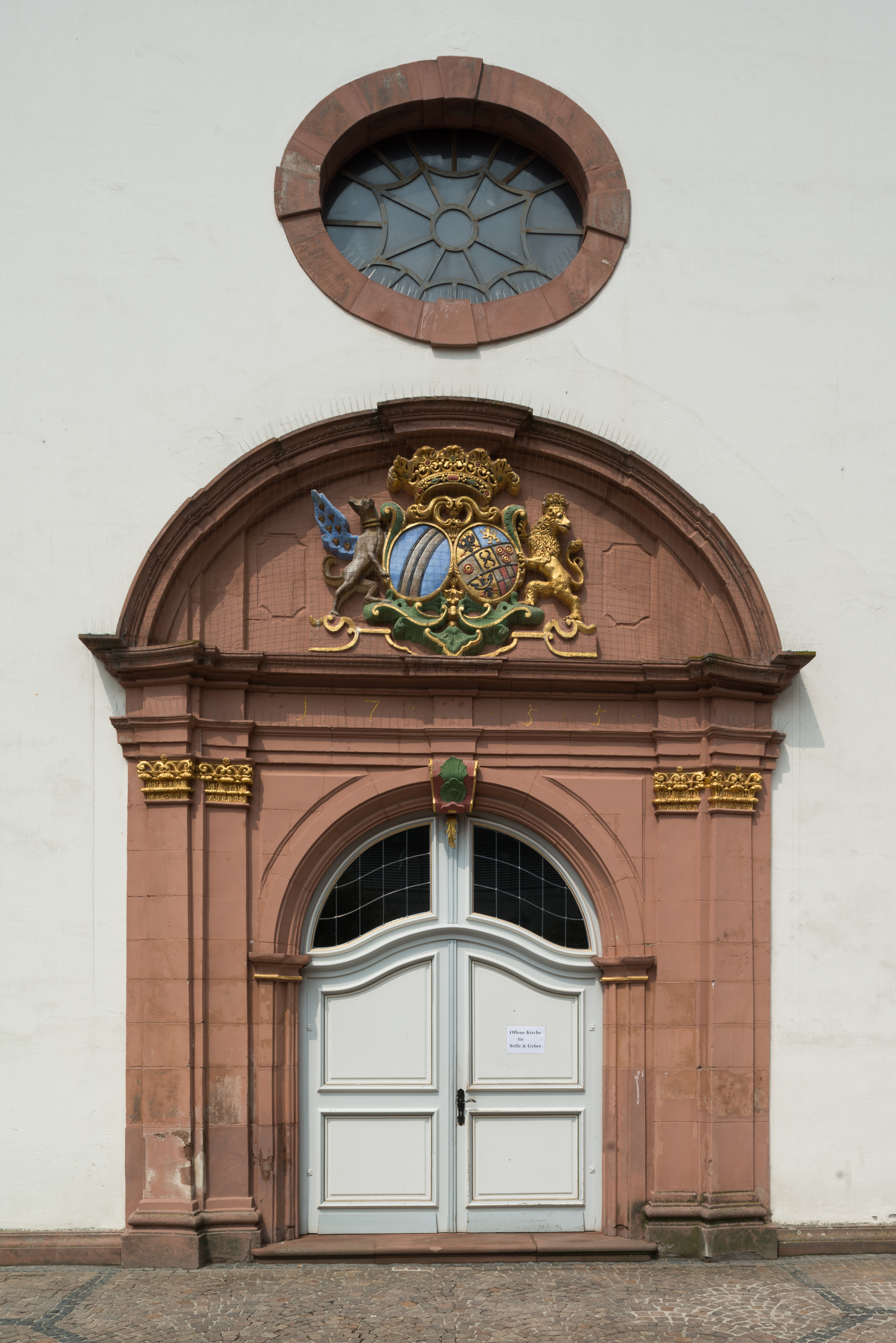 Portal of the Church of St. Engelbert, St. Ingbert